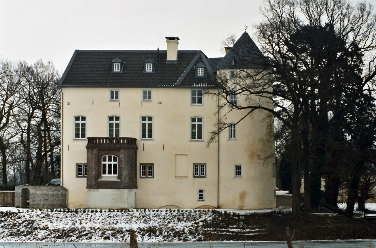 Burg Boetzelaer in Kalkar (Germany), north-western aspect